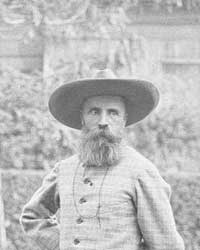 Photograph of Auguste Jean-Marie Pavie